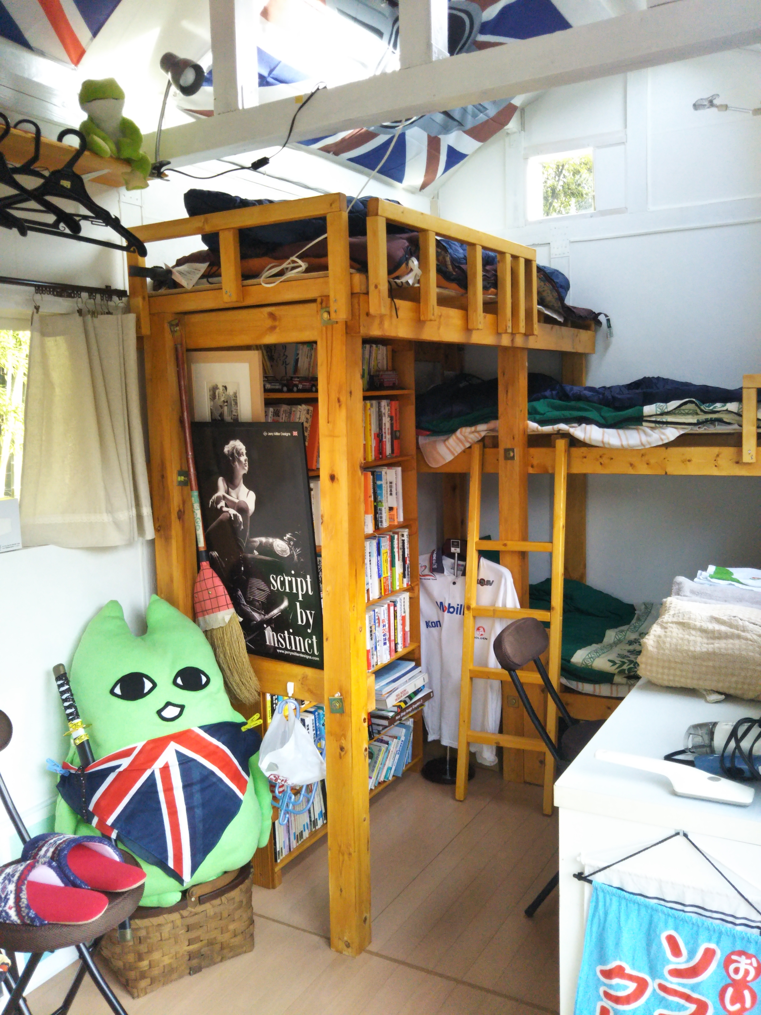 cottage "johnny Doome"